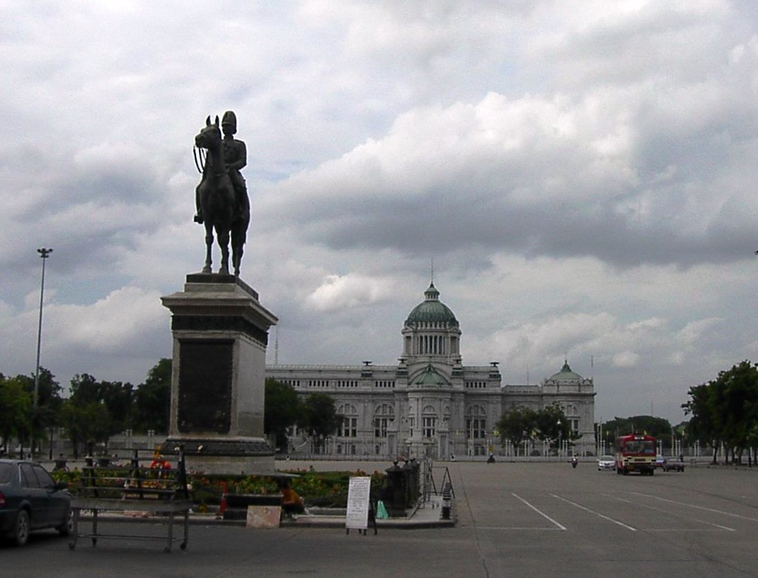 Throne Hall, Bangkok. July 2006